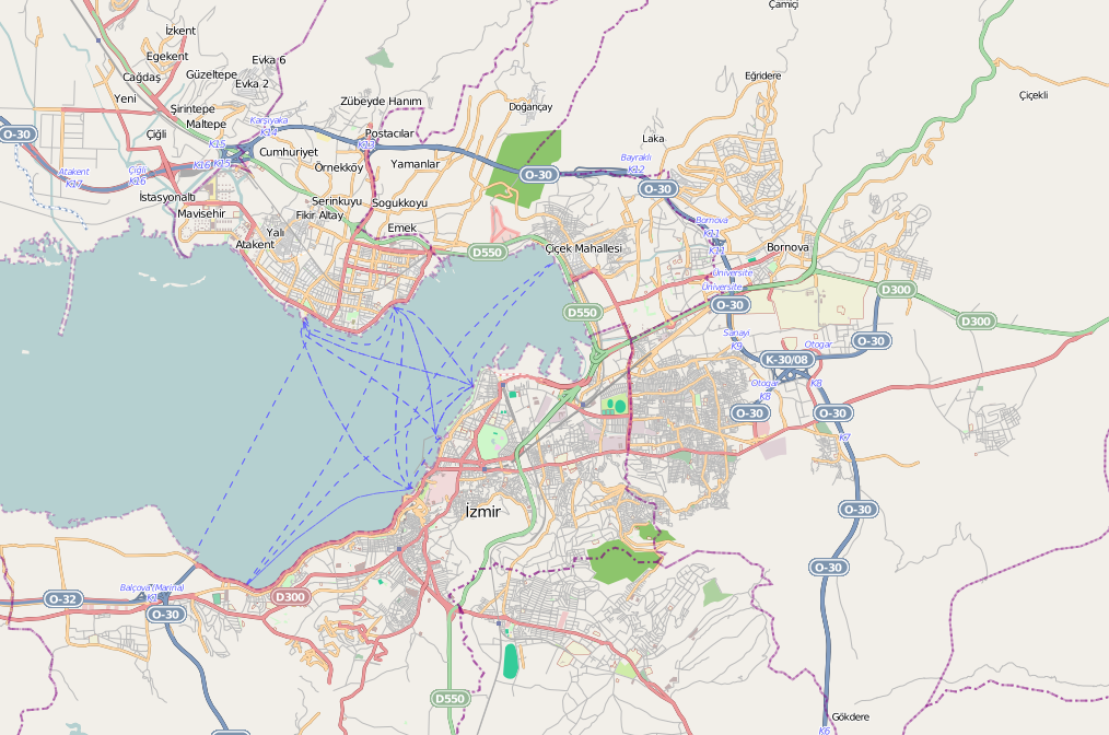 Izmir map from OpenStreetMapTürkçe: İzmir'in OpenStreetMap haritası